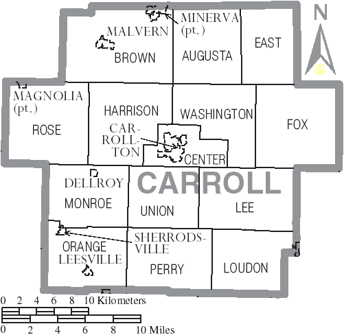 Map of Carroll County, Ohio, United States with township and municipal boundaries